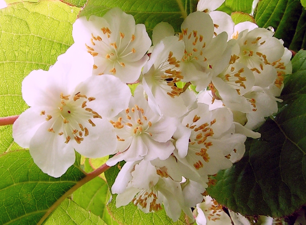 The flowers of cultivated Actinidia kolomikta. Moscow region, Russia.